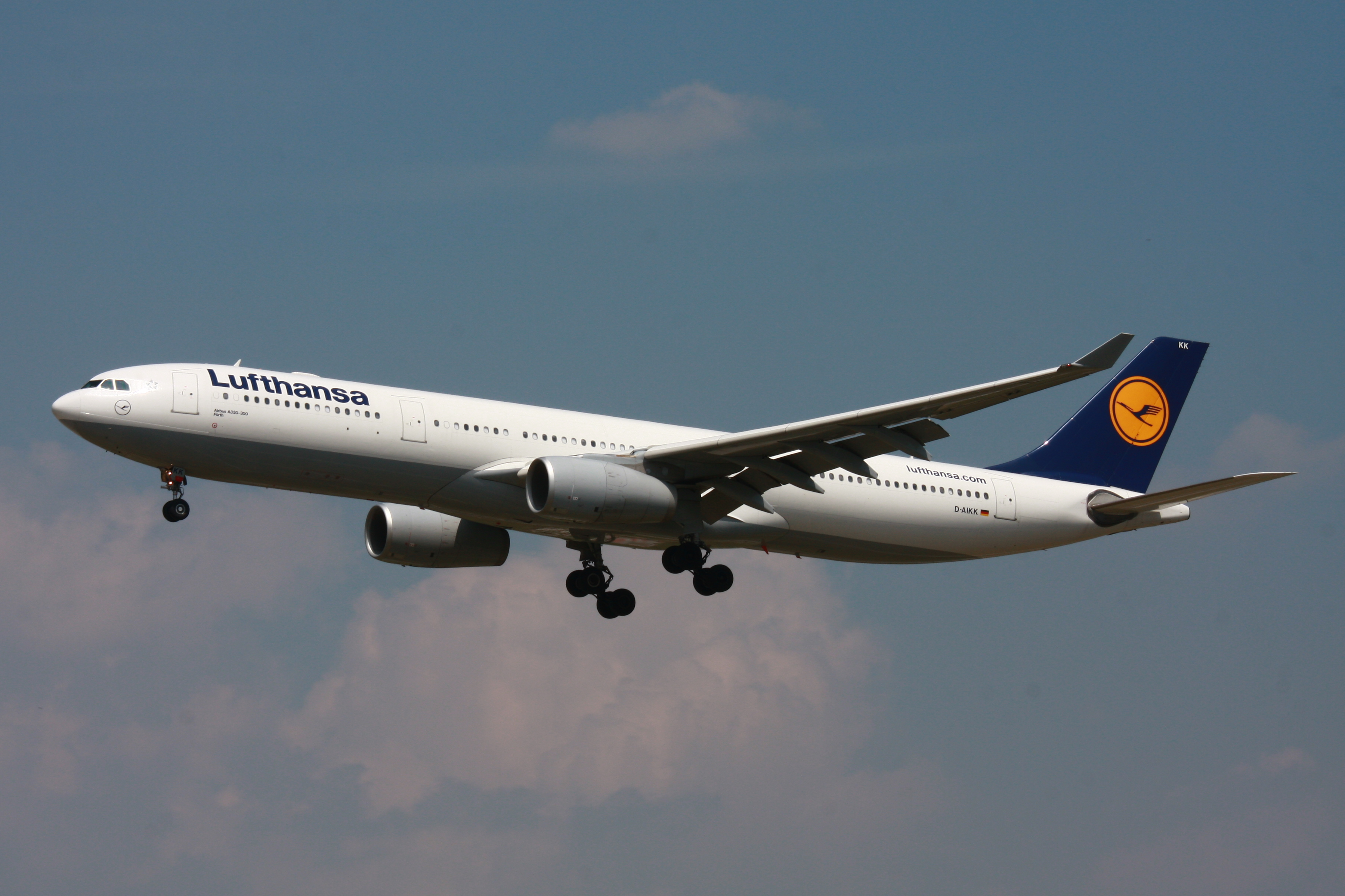 A Airbus A330-300 of Lufthansa landing at Frankfurt Airport